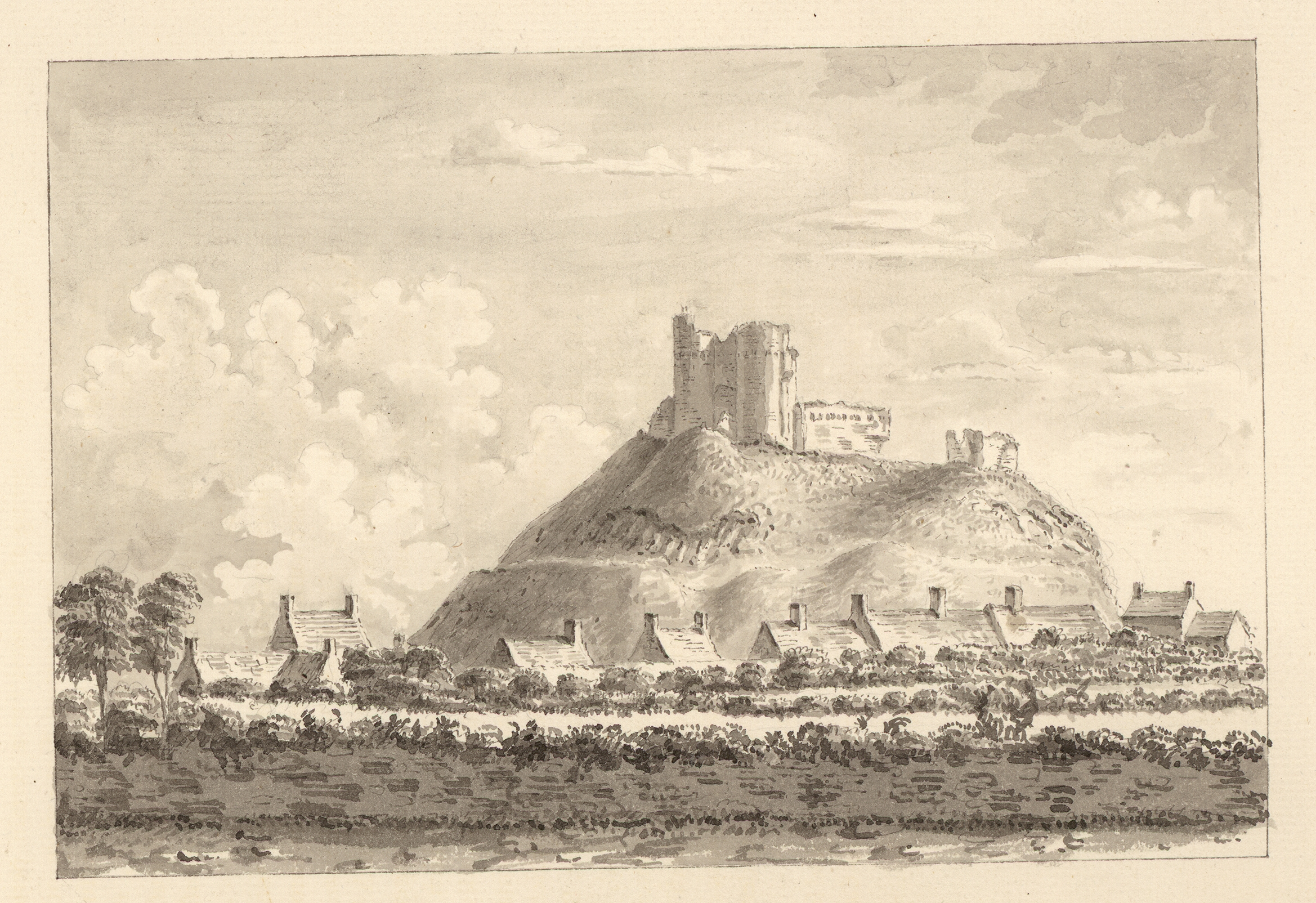 An image from a set of 8 extra-illustrated volumes of A tour in Wales by Thomas Pennant (1726-1798) that chronicle the three journeys he made through Wales between 1773 and 1776. These volumes are unique because they were compiled for Pennant's own library at Downing. This edition was produced in 1781. The volumes include a number of original drawings by Moses Griffiths, Ingleby and other well known artists of the period. Thomas Pennant (1726-1798)